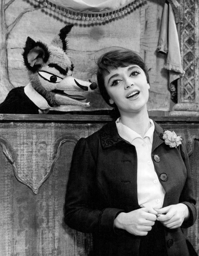 Photo of Anna Maria Alberghetti as Lili in the Broadway musical Carnival!.